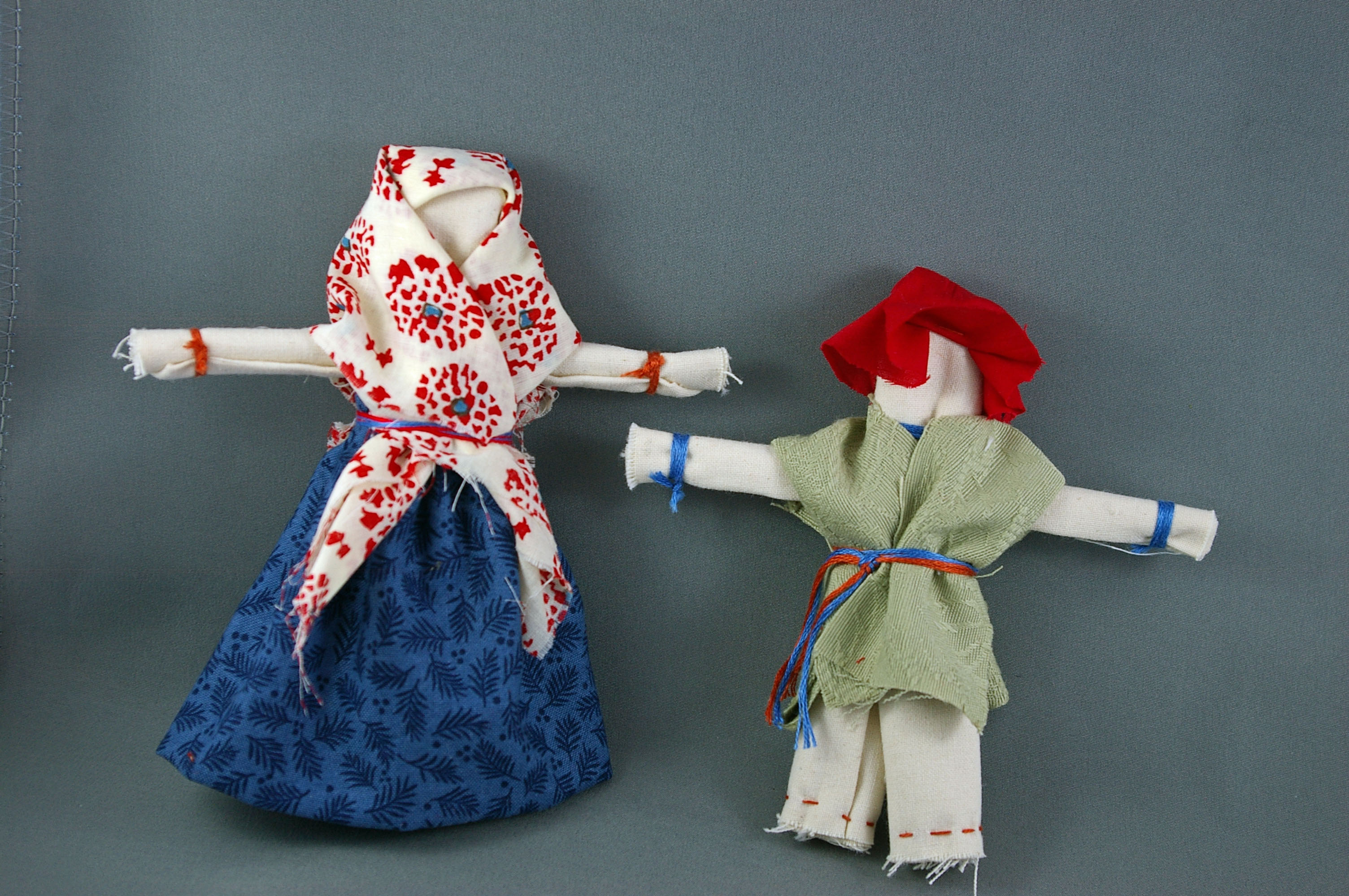 Many Ukrainian Christmas decorations are home made. including one of the most popular decorations the rag doll or Motanka. The name comes from the Ukrainian verb“to wind”. Motanky are usually made out of available natural fabric scraps and threads.. Motanky are not just dolls; they are periapts (amulets) saturated with positive energy.